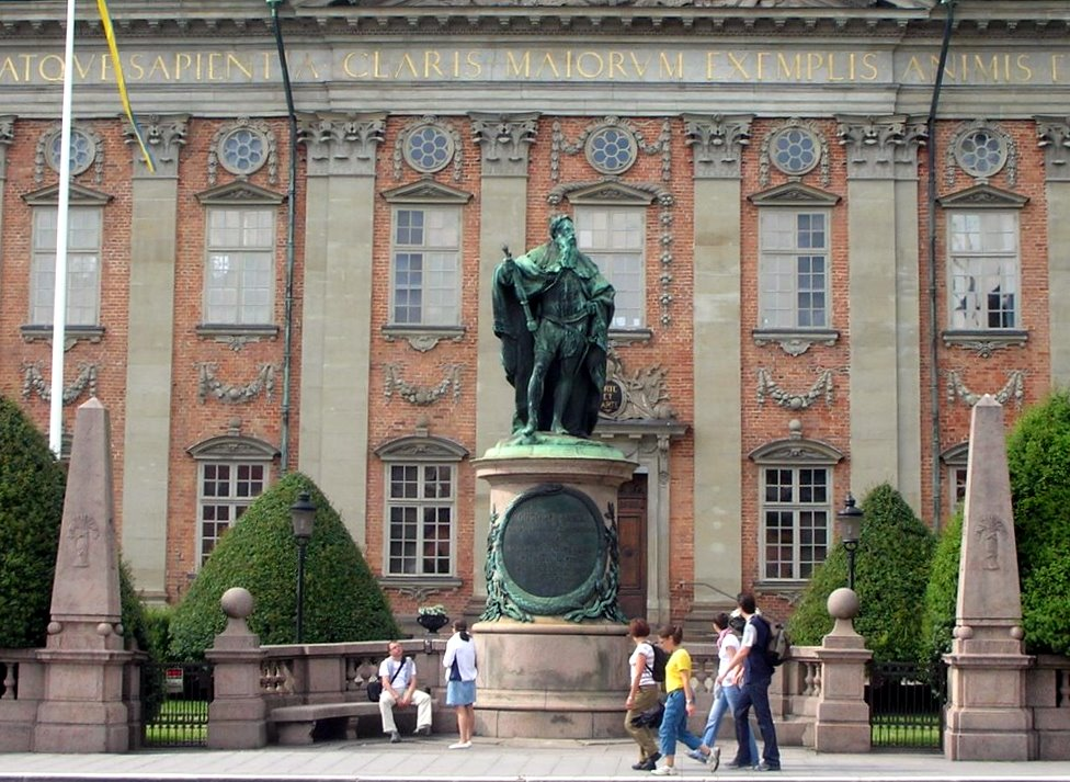 The statue of Gustav Vasa outside the House of Nobility in Stockholm, Sweden.